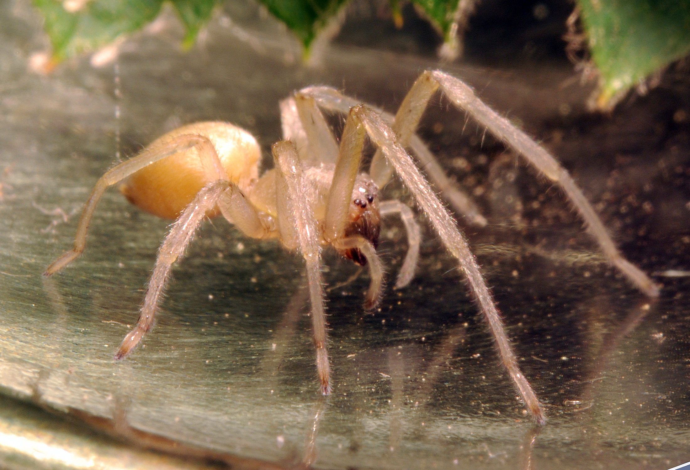 Cheiracanthium cf mildei, found in a house of Zürich, Switzerland, October 20, 2008